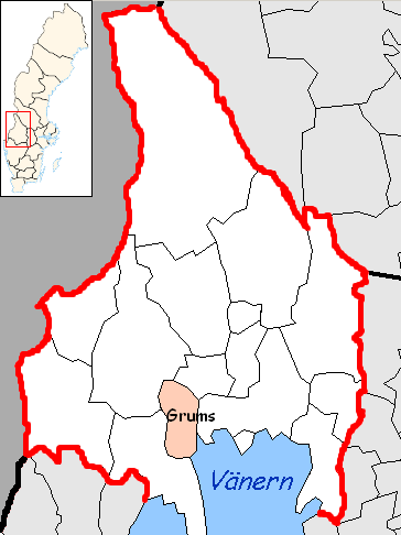 Grums Municipality in Värmland County Designd by me, based on Image:Värmland County.png